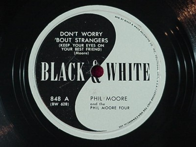 Phil Moore Four 1947 - Black & White Records :Don't Worry `bout Strangers